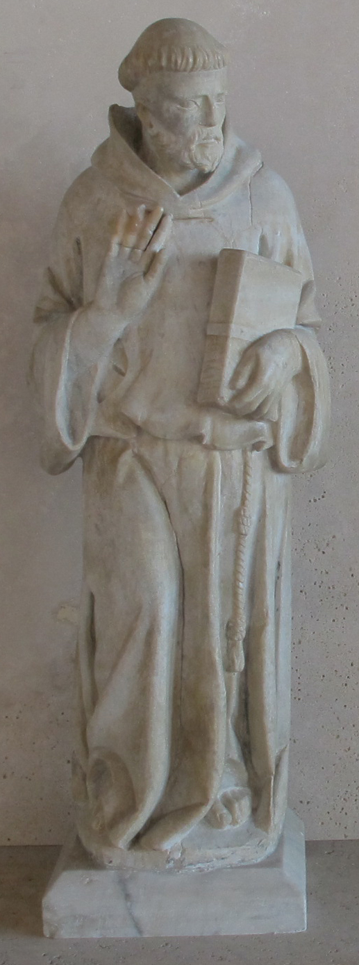 Sculpture in the National Pinacotheque, Siena